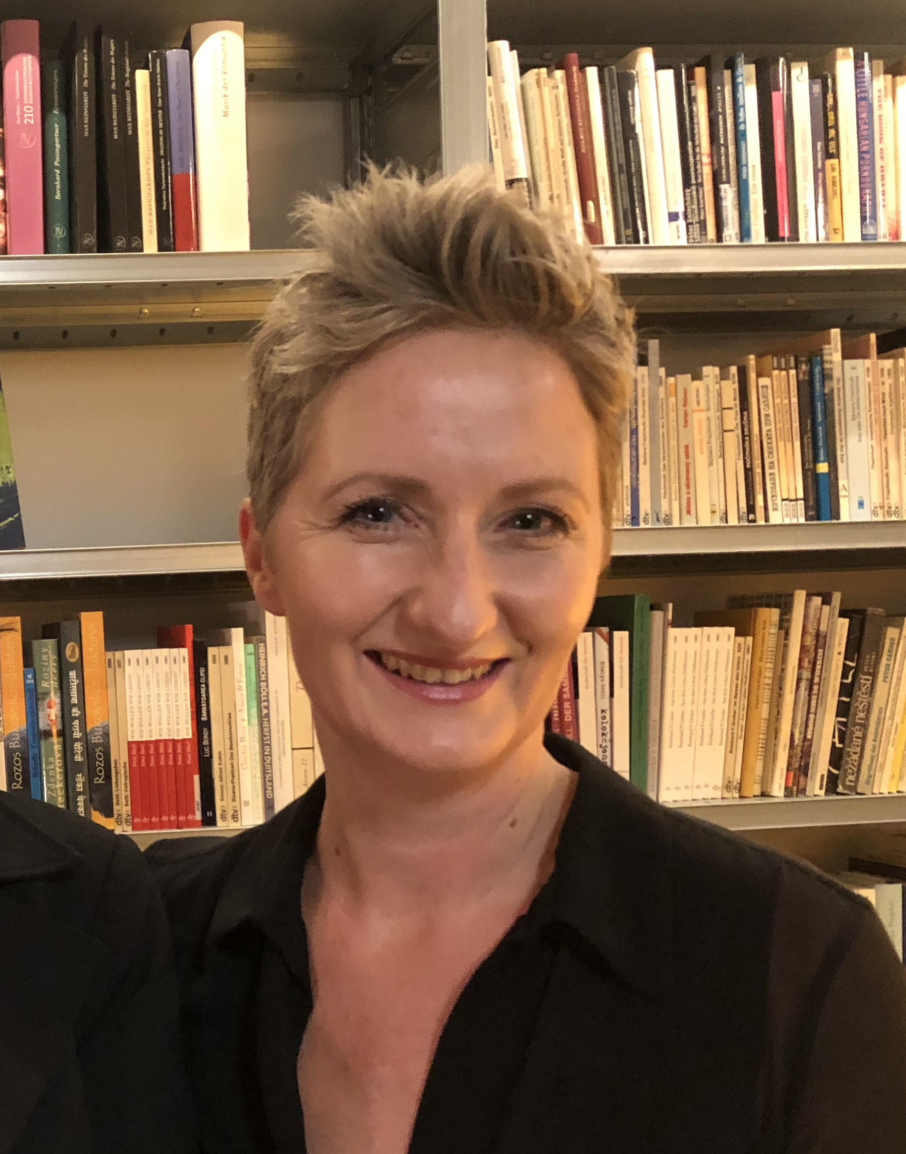 Author, Journalist and Historian Barbara Toth, 2017